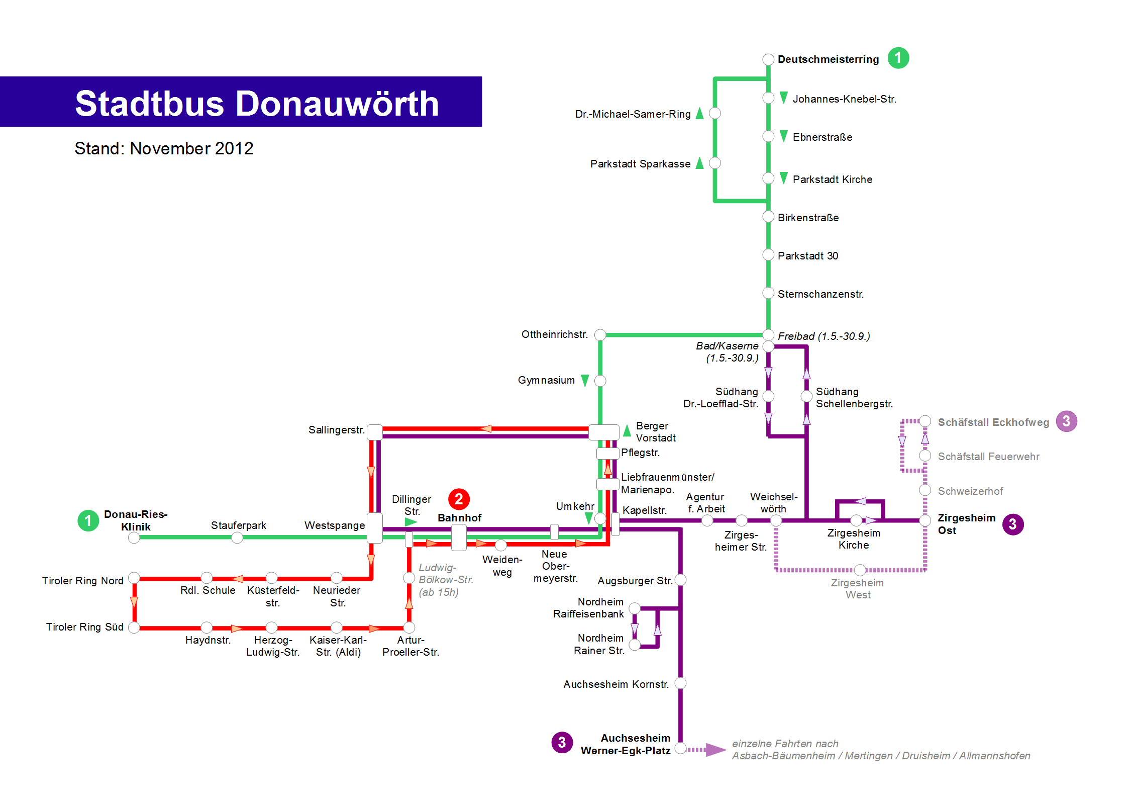 Urban bus system of Donauwörth